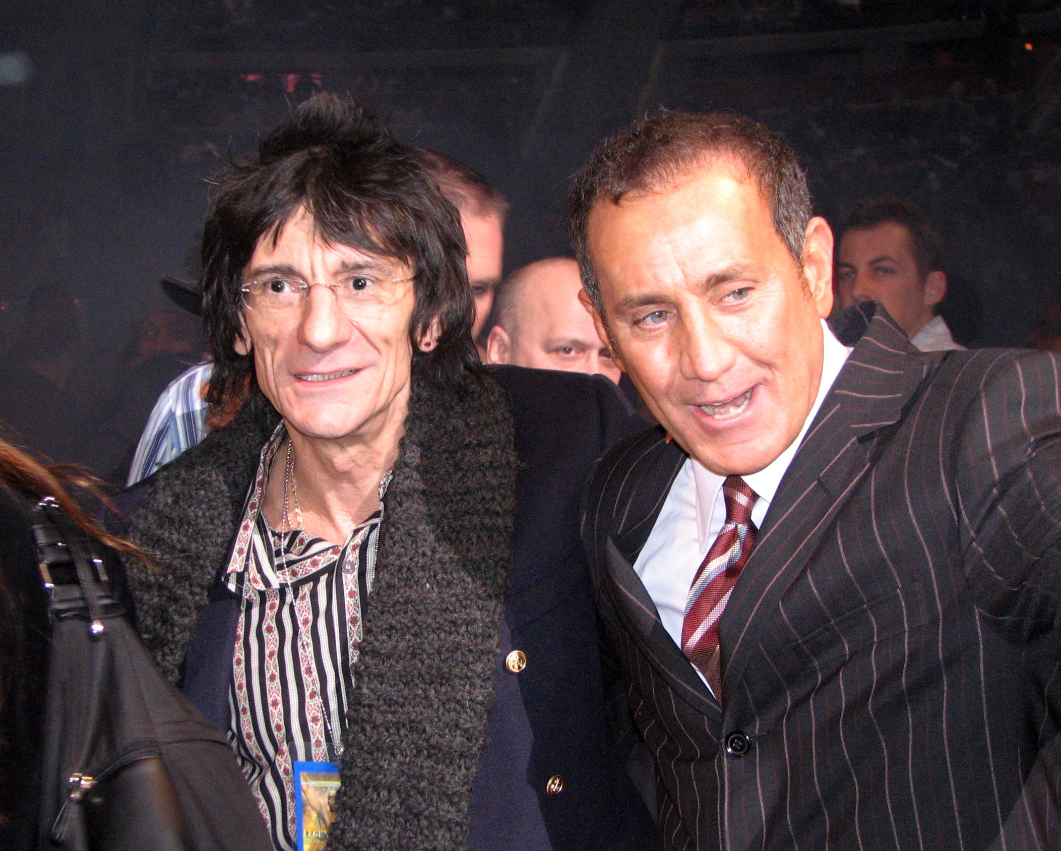 Ron Wood of the Rolling Stones is shown to his seat at the Palace by promoter Joseph Donofrio.